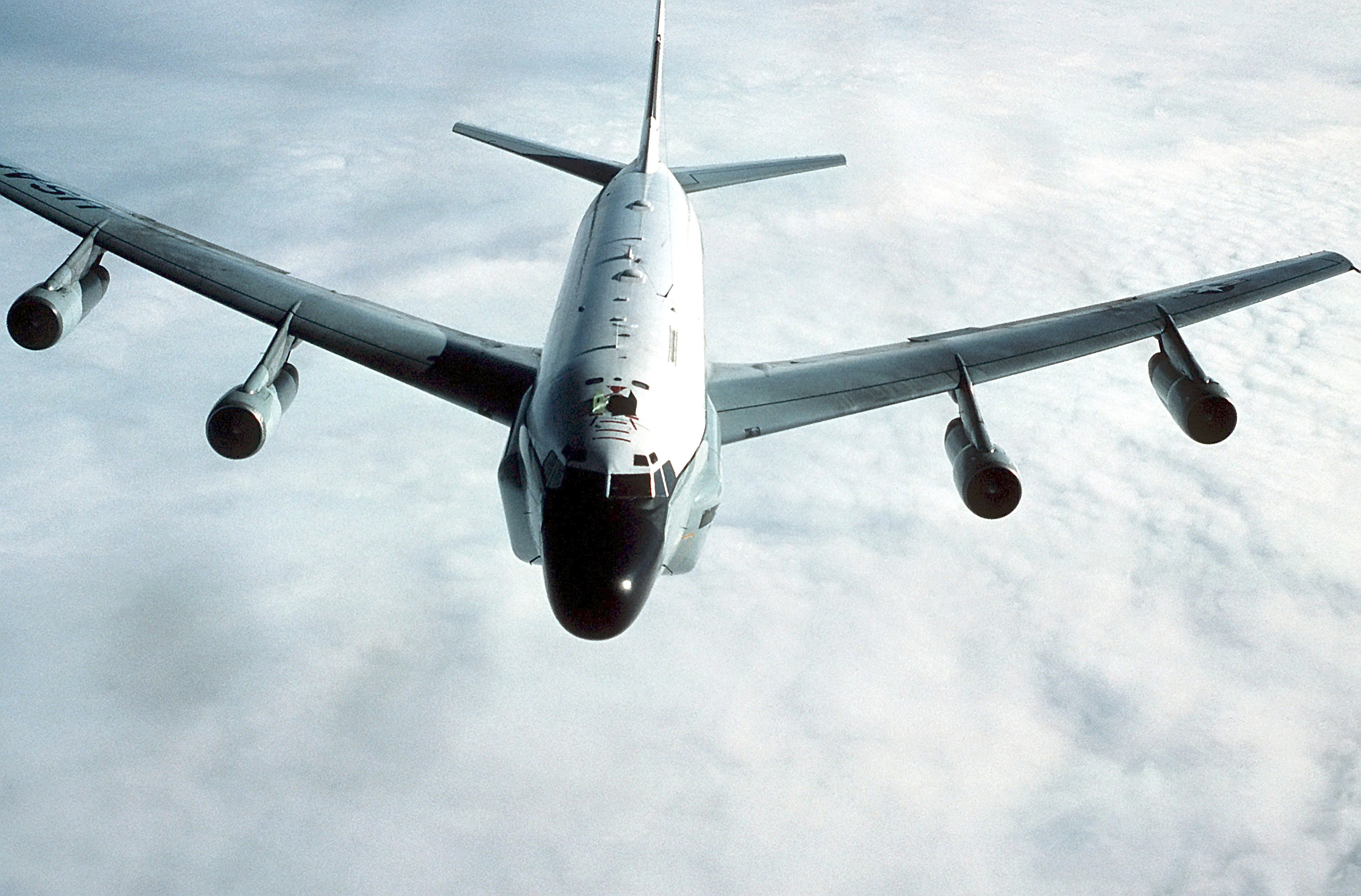 An air-to-air front view of an RC-135 Stratolifter aircraft from the 306th Strategic Wing during a refueling mission over the North Sea.